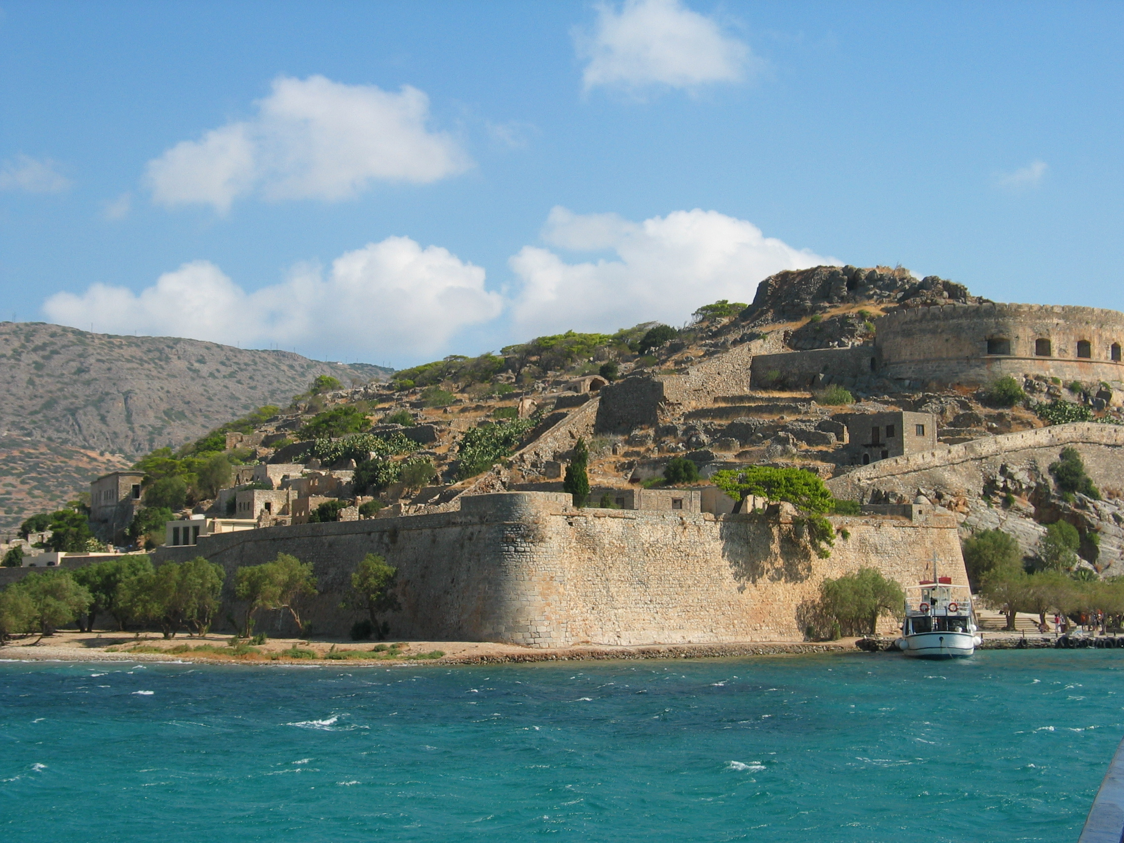 Island of Spinalonga in Lasithi, Crete. Formerly a Venetian fortress and a leper colony.